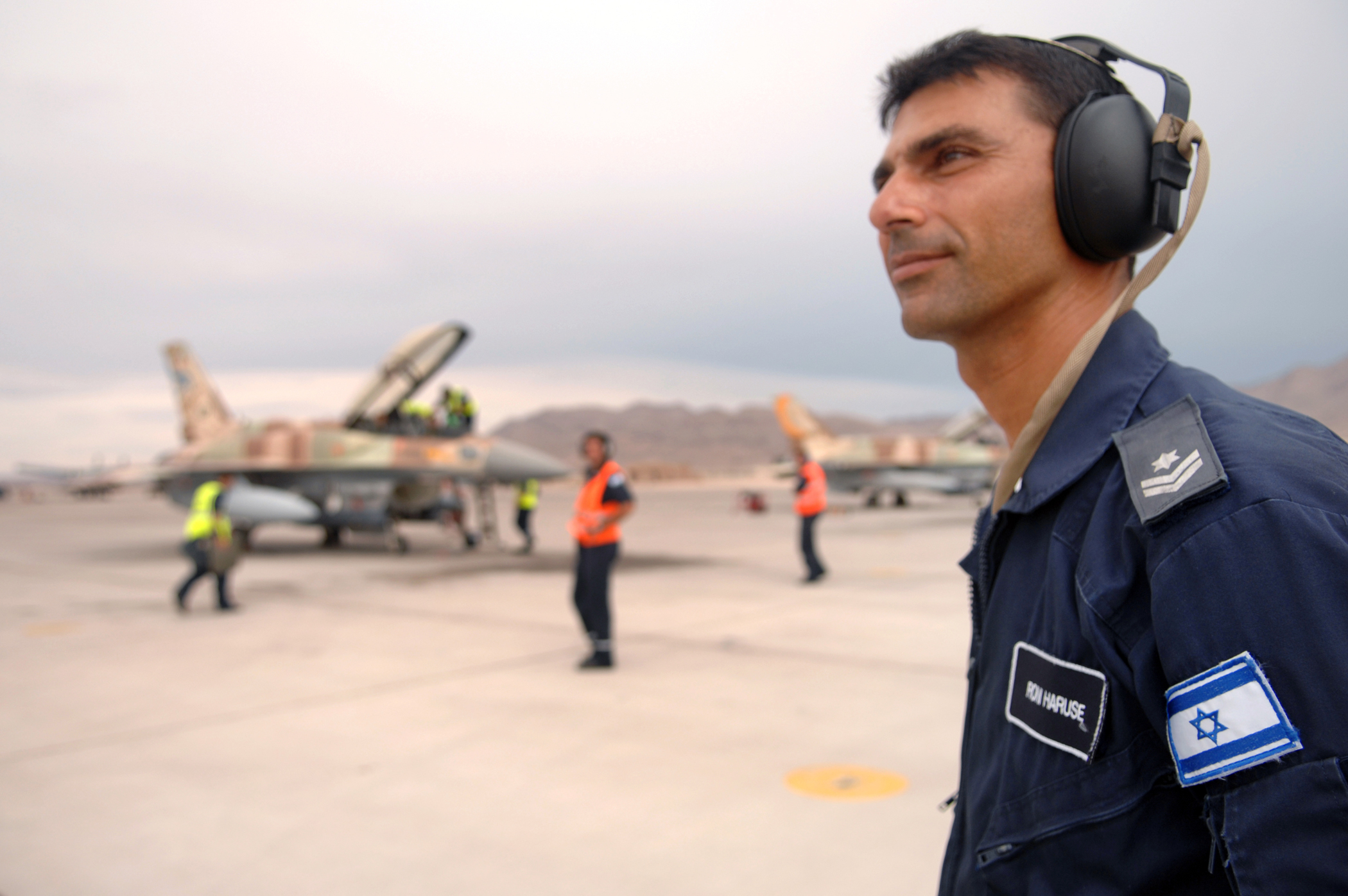 An Israeli Air Force Crew Chief watches over F-16Is before launch from Nellis Air Force Base, Nev., for a training mission during Red Flag 09-4 on July 20, 2009.